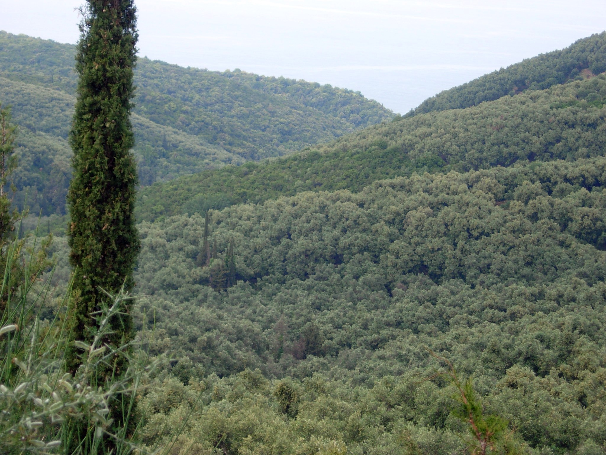 Near Parga. The environment is typically both hilly and covered with forest.